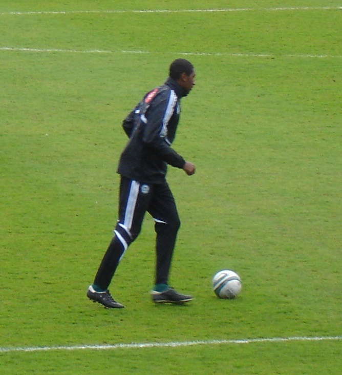 Réda Johnson, a Benin international footballer.